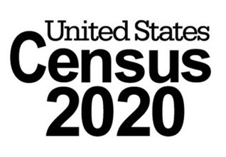 Logo for the 2020 United States Census.